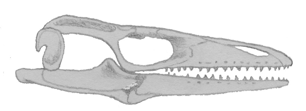 Skull of Aigialosaurus bucchichi (jr synonym Opetiosaurus bucchichi), an aigialosaurid lizard